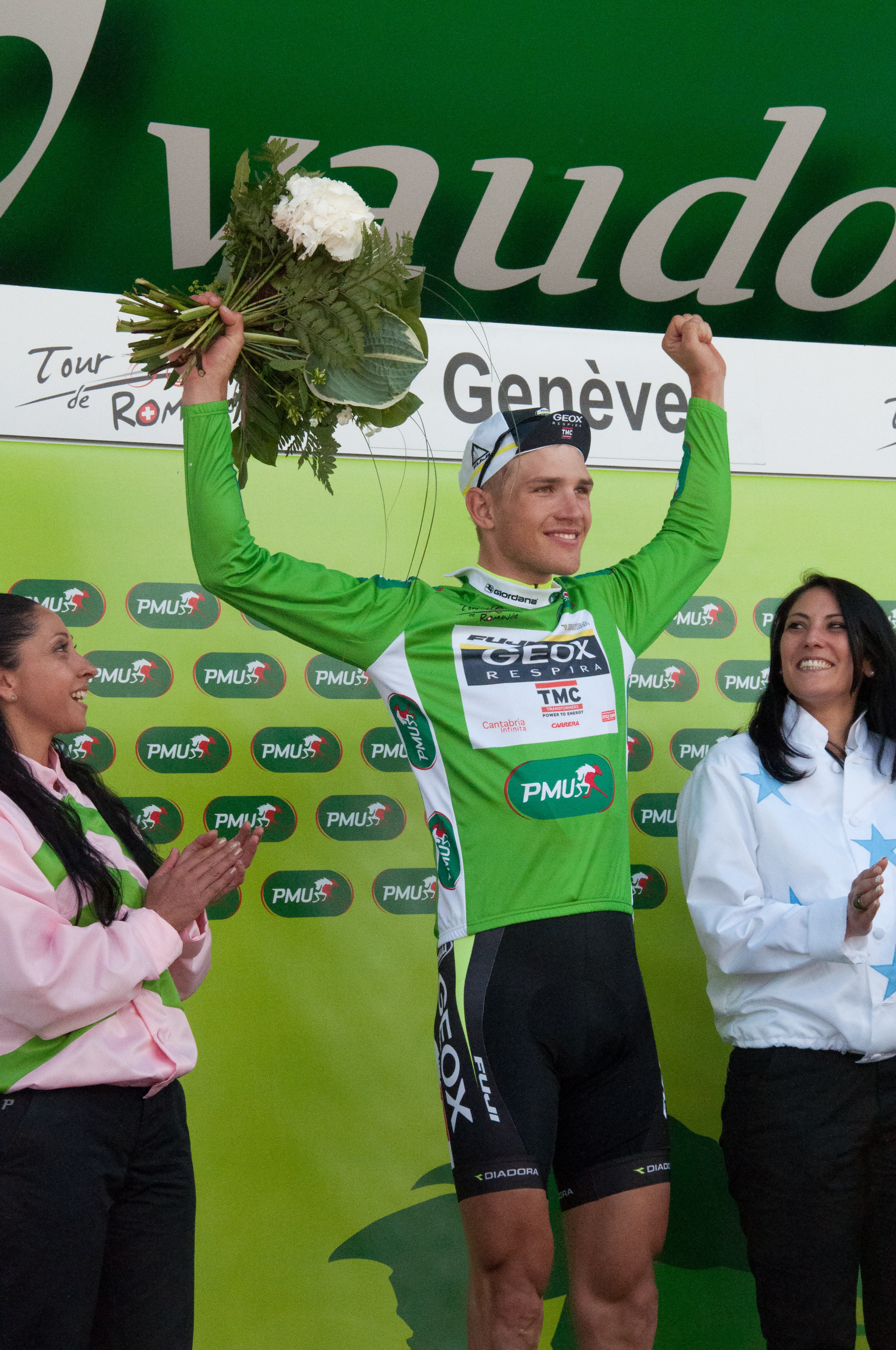 2011 Tour de Romandie, Winner of the Sprint Classification Matthias Brändle wearing the final Green Jersey.